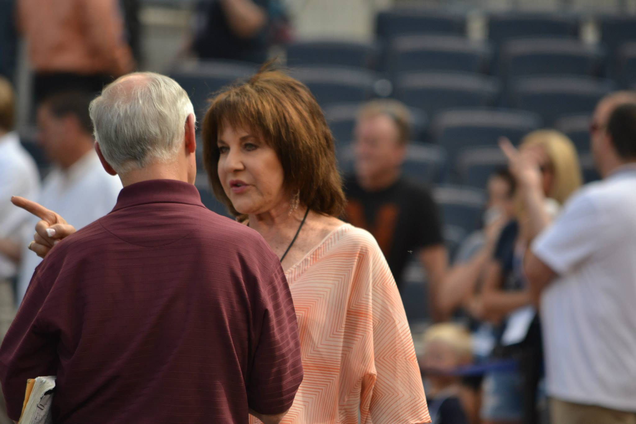 New York Yankees radio announcer Suzyn Waldman prior to a game against the Toronto Blue Jays at Yankee Stadium in the Bronx, New York, NY on June 18, 2014